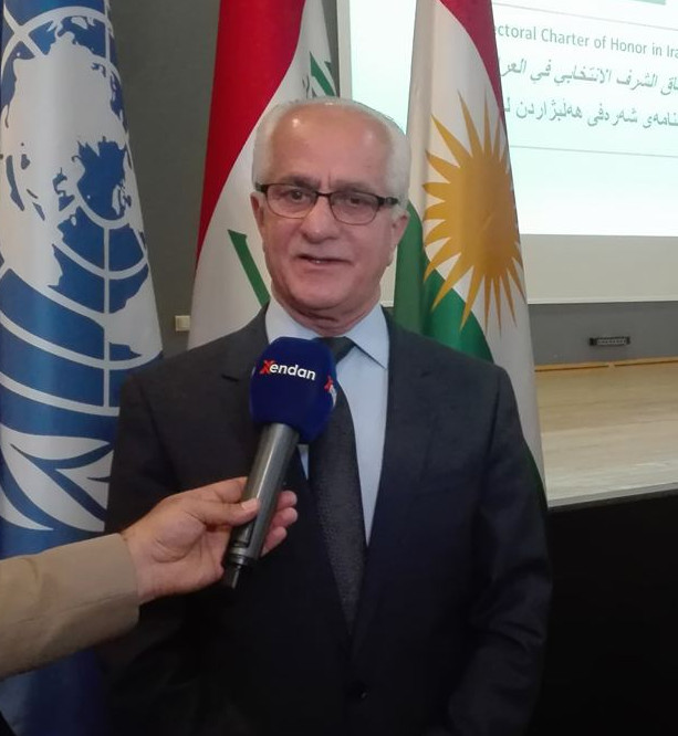 Mohammed Raoof representing Alliance for Justice and Democracy at a UN event (18th April 2018) for Iraqi Elections 2018 کوردی: محەممەد ڕەئووف لە کۆنگرەی میساقی شەرەف (١٨ی مایسی ٢٠١٨)ی نەتەوە یەکگرتوەکان وەک نوێنەری هاوپەیمانی دیموکراسی و دادپەروەری